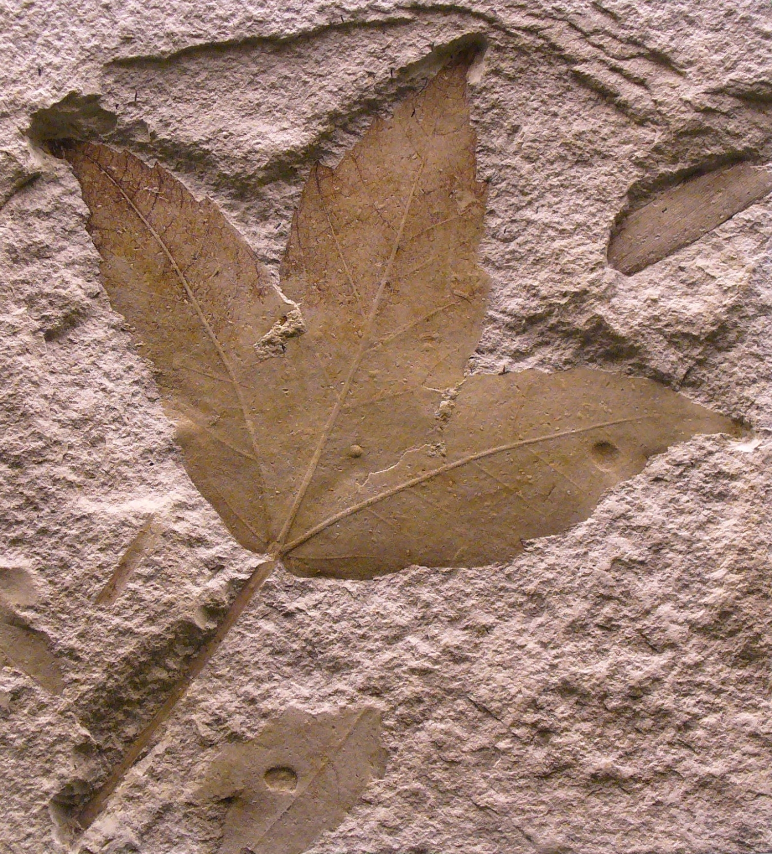 Acer trilobatum, Sapindaceae, Miocene, Öhningen layers, Öhningen, Germany; Staatliches Museum für Naturkunde Karlsruhe, Germany.